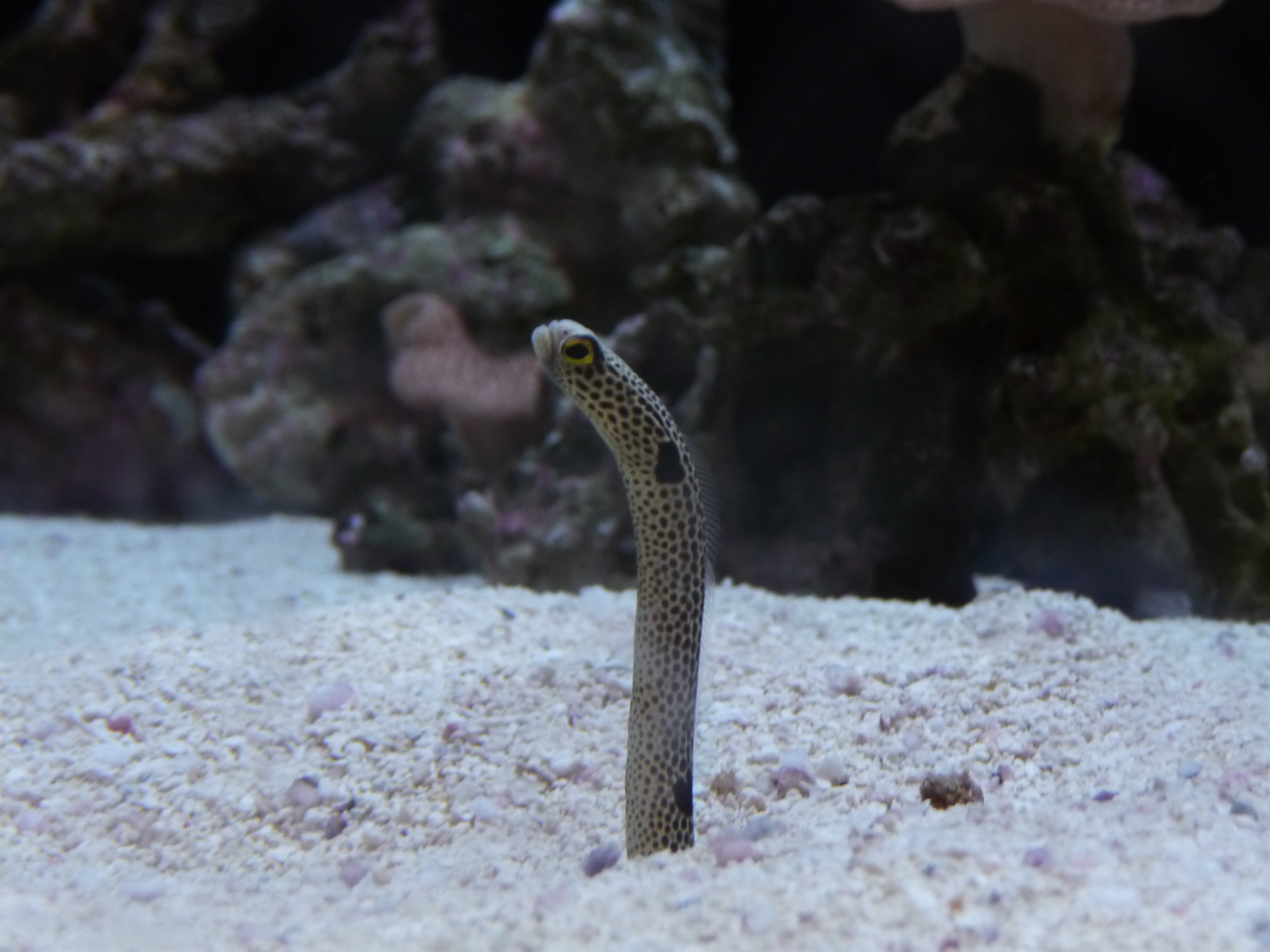 Spotted Garden Eel at the Seattle Aquarium